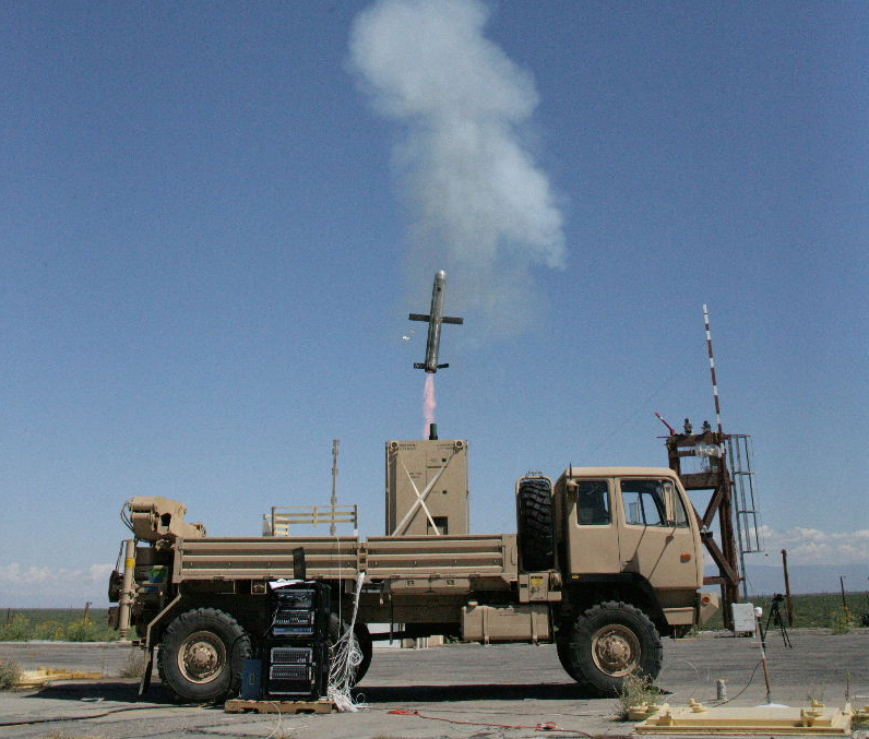 NLOS-LS launches from a CLU on the back of a truck